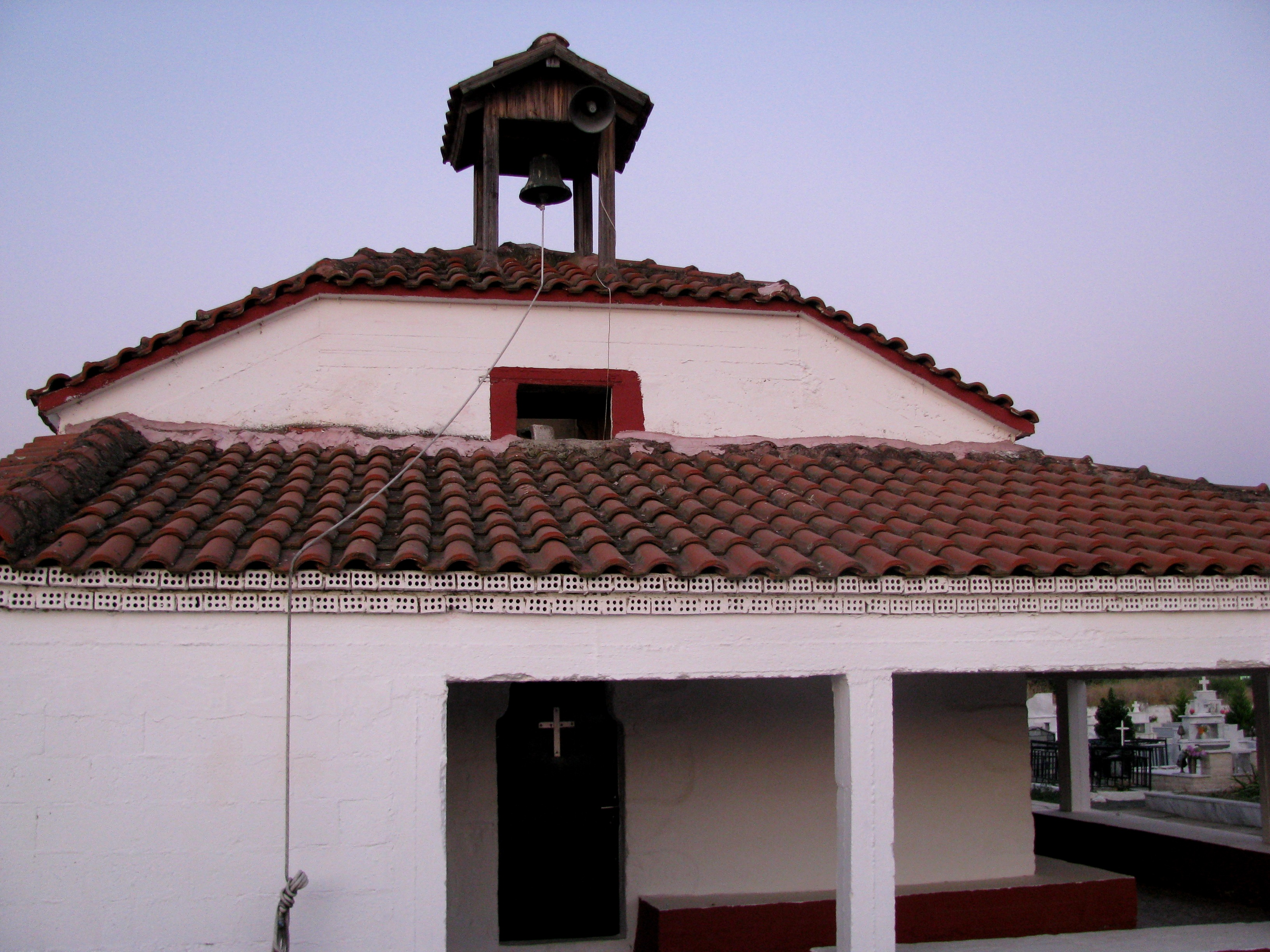 Church of village of Mandalevo or Mandalo, Pella prefecture, Greece